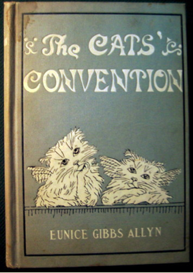 "The Cats' Convention" by Eunice Gibbs Allyn (cover)